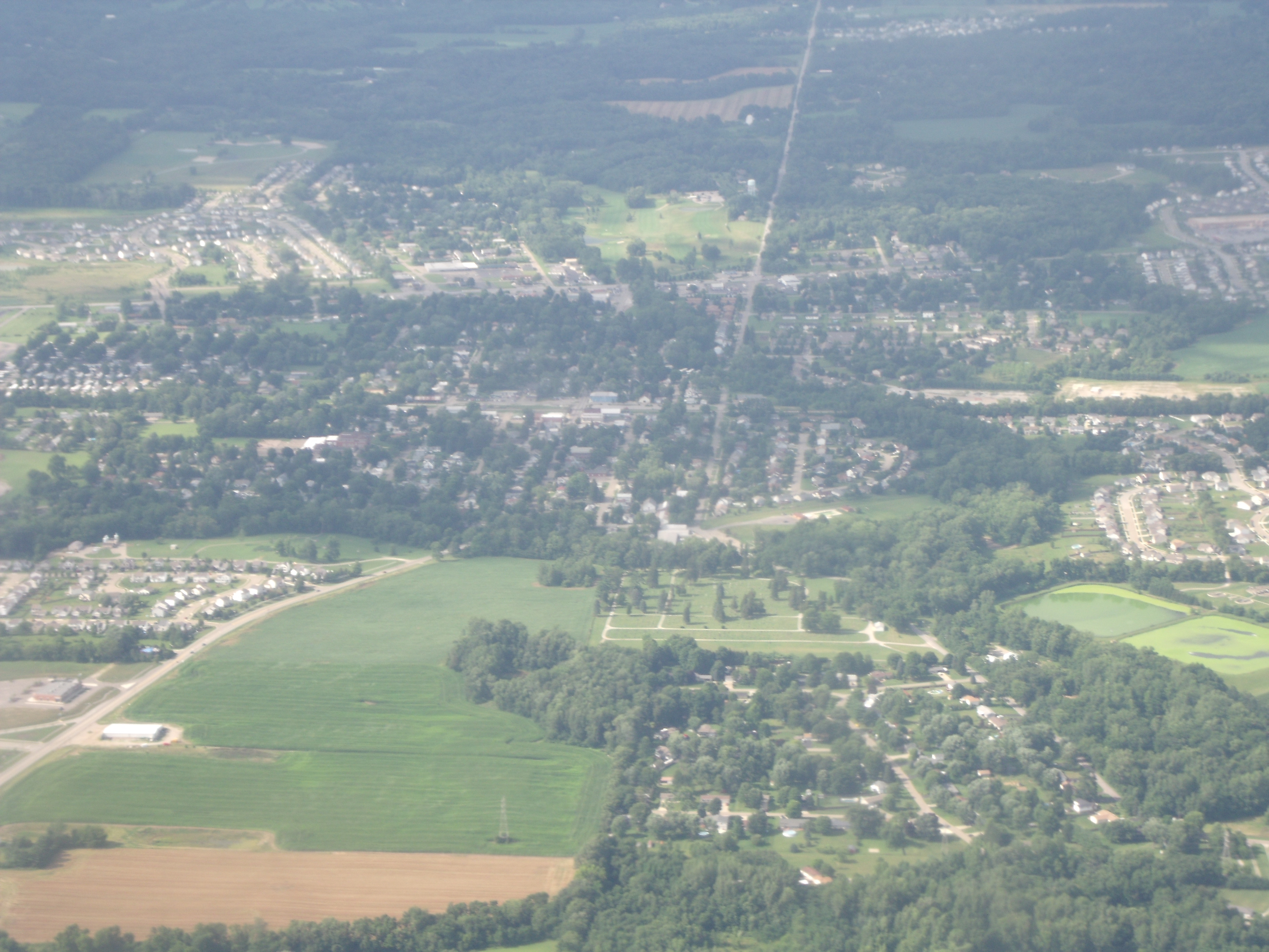 Pataskala, Ohio